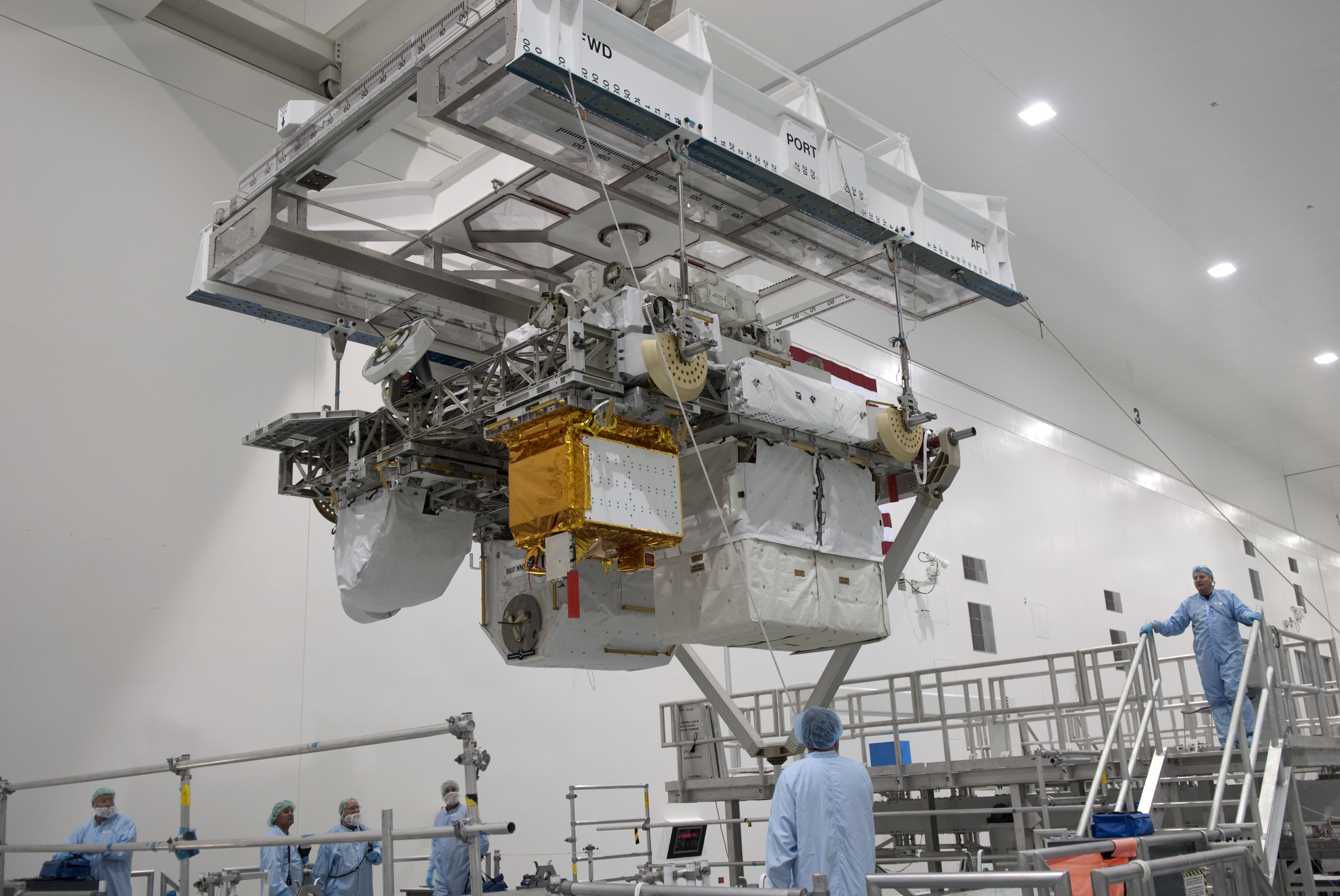 CAPE CANAVERAL, Fla. – In the Space Station Processing Facility at NASA's Kennedy Space Center in Florida, Express Logistics Carrier-3 is moved from its primary work stand to a payload canister. The canister will protect the space-bound payload on its journey to Launch Pad 39A, where it will later be installed into space shuttle Endeavour’s payload bay. ELC-3 is packed with a variety of spare parts for the International Space Station, including two S-band communications antennas, a high-pressure gas tank, additional spare parts for Dextre and micrometeoroid debris shields. ELC-3 will fly to the station aboard Endeavour's STS-134 mission targeted to launch April 19 at 7:48 p.m. EDT. For more information visit